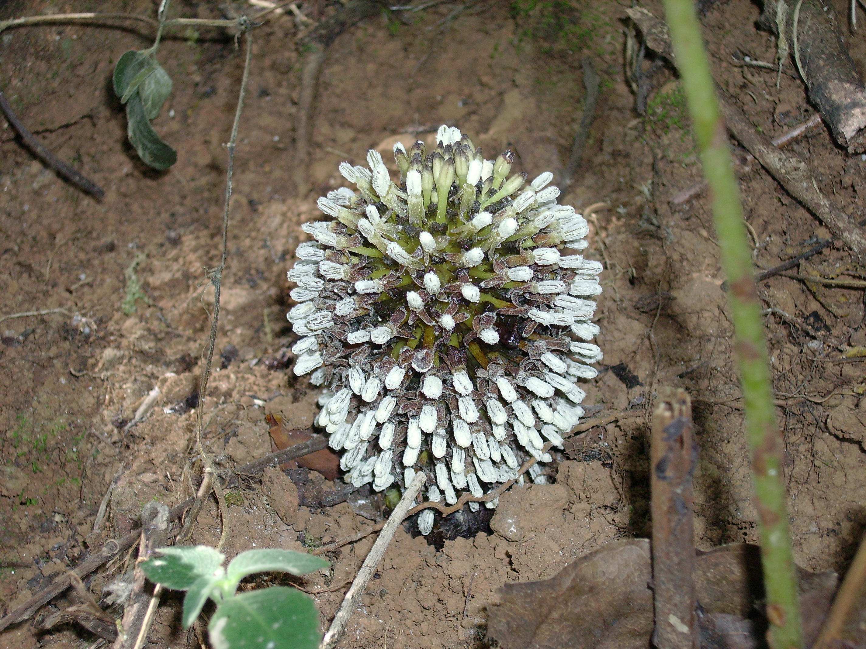 Balanophora fungosa in Madikeri, Coorg, India